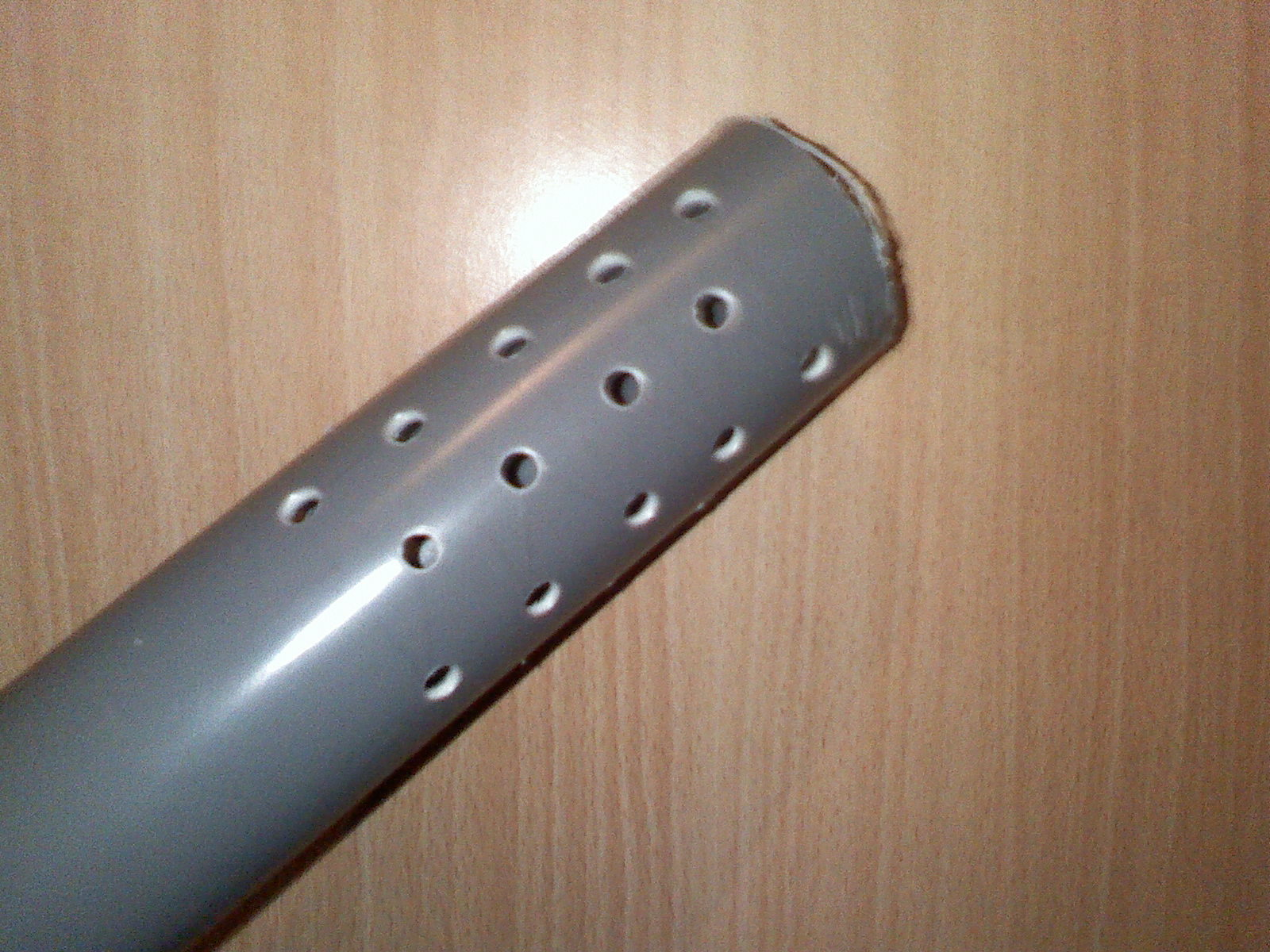 (A muzzle of the spud gun)